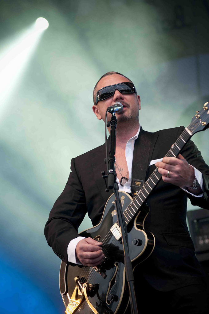 Huey Morgan and Fun lovin Criminals Festival Mundial" Tilburg "The Netherlands" 19-06-2011